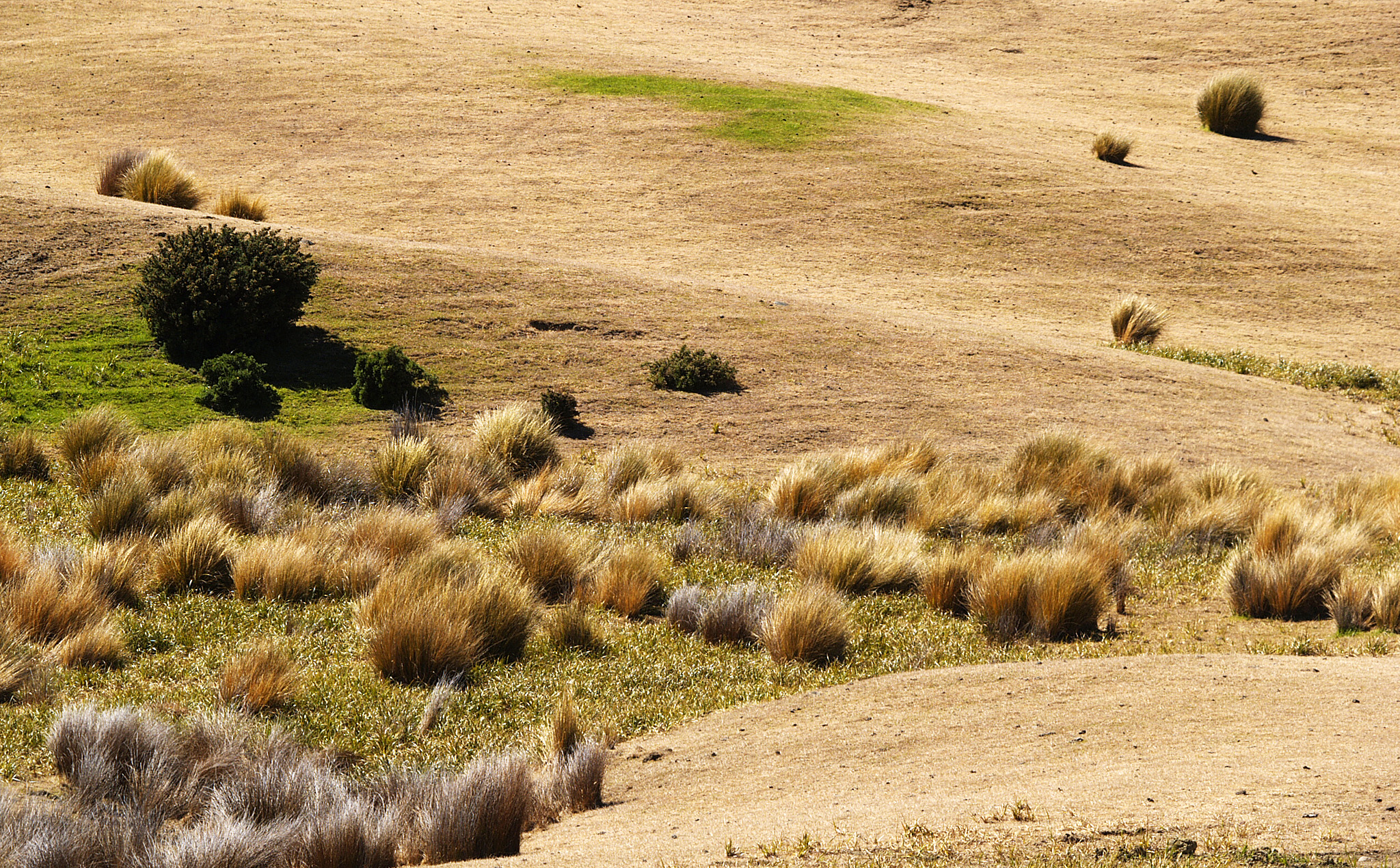 Tussock on Farmland between Manapuri and Blackmount, South Island, New Zealand